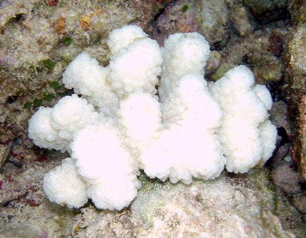 High quality picture of a bleached coral in a Maldivian reef.